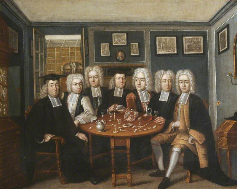 "Portrait of Thomas and John Cockman and some Fellows of University College" by Benjamin Ferrers. Thomas Cockman (1675-1745), was the contested Master of University College, Oxford. Displayed at University College, University of Oxford. This painting was probably commisioned by John Cockman (brother of Thomas) to commemorate his brother's court victory in the 1722 contested mastership election of University College.